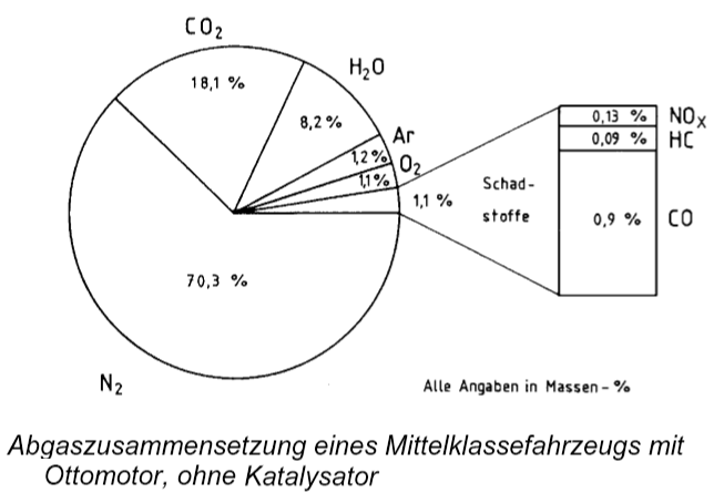 Exhaust Gas Composition